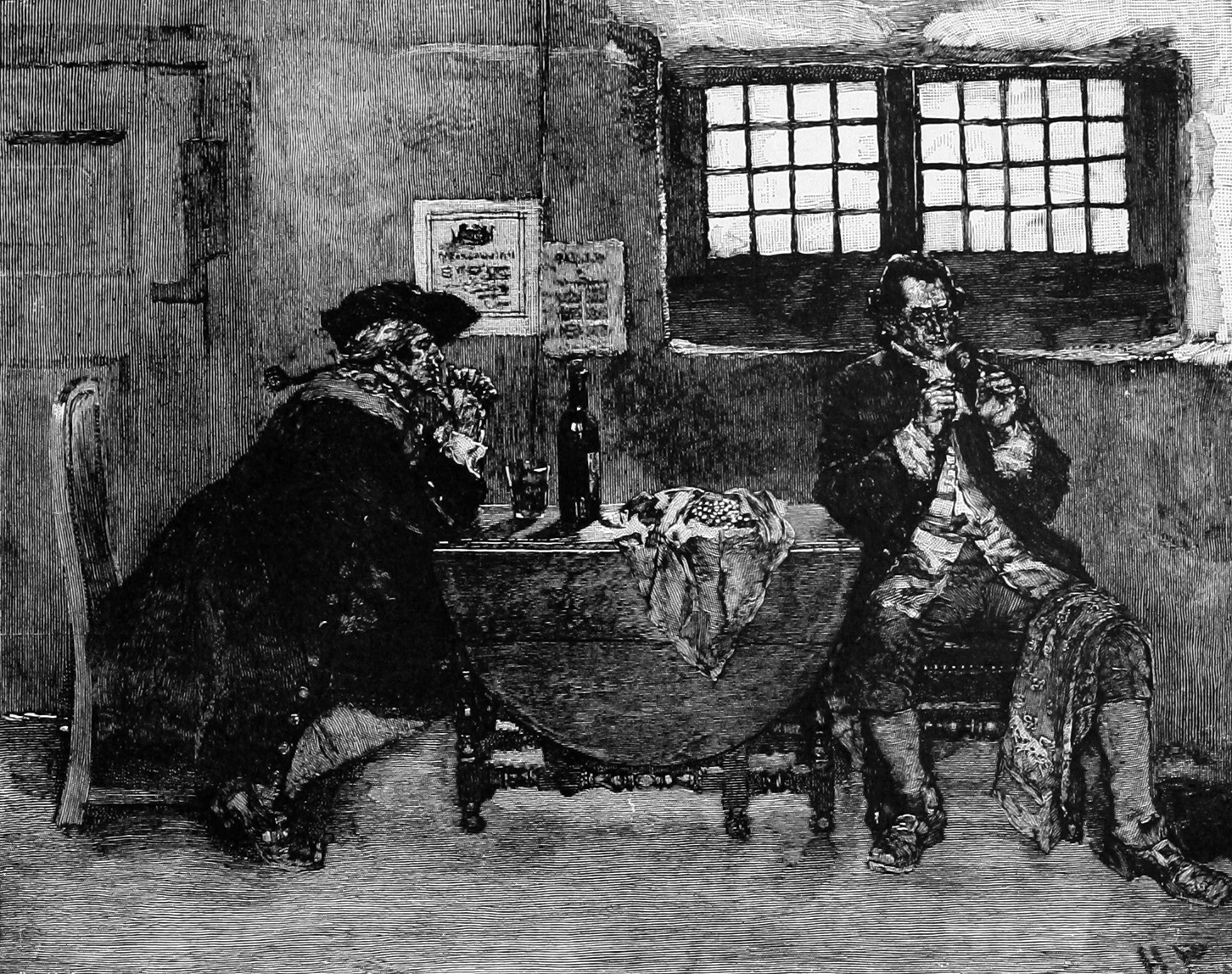 Avary sells his Jewels: this was originally published in Pyle, Howard (June–November 1887). "Buccaneers and Marooners of the Spanish Main — Second Paper". Harper's Magazine 75 (448): p. 502. New York, United States: Harper and Brothers.